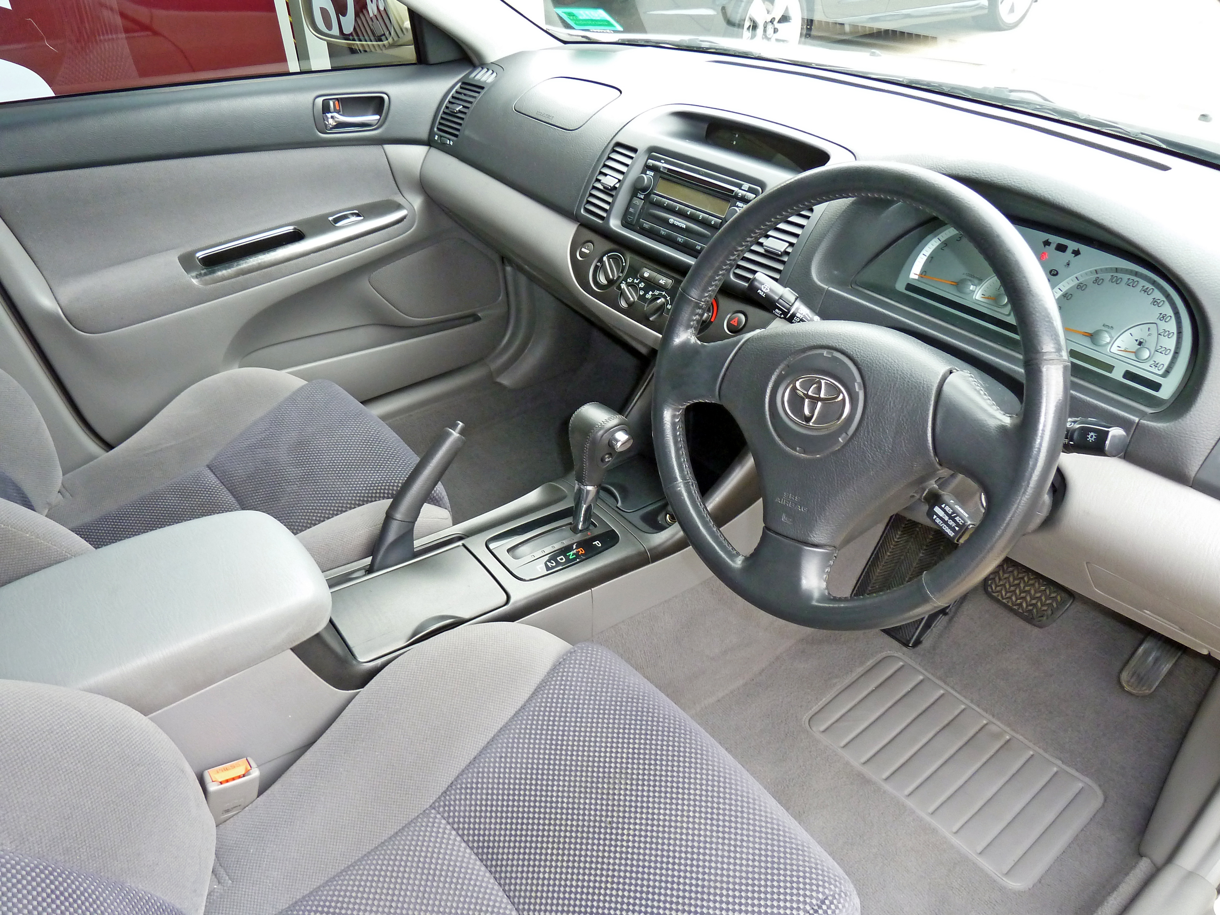 2003 Toyota Camry (ACV36R) Sportivo sedan. Photographed at Suttons Holden, Chullora, New South Wales, Australia.